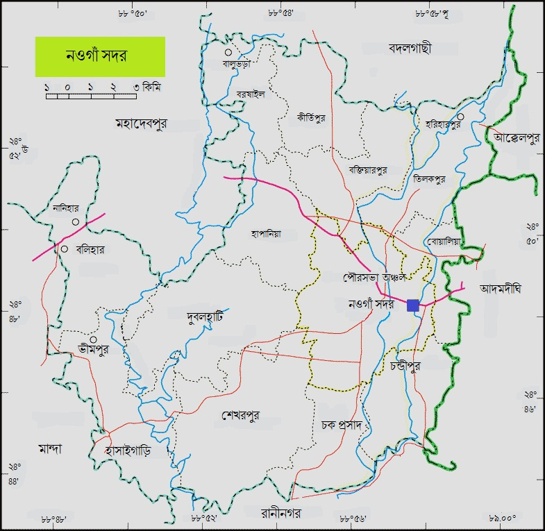 This is the map of Naogaon Sadar Upazila.